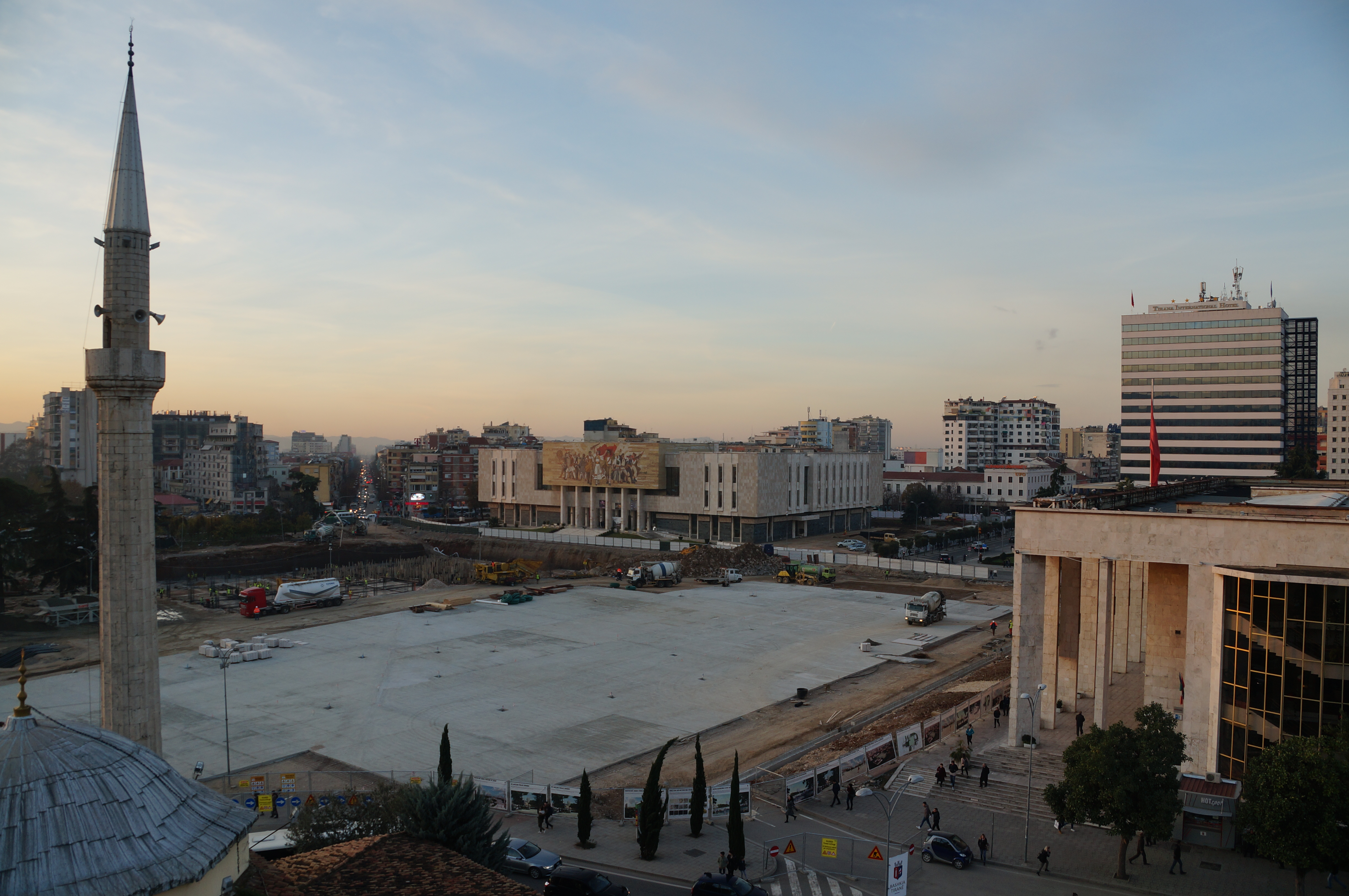 Skanderbeg square in Tirana during reconstruction